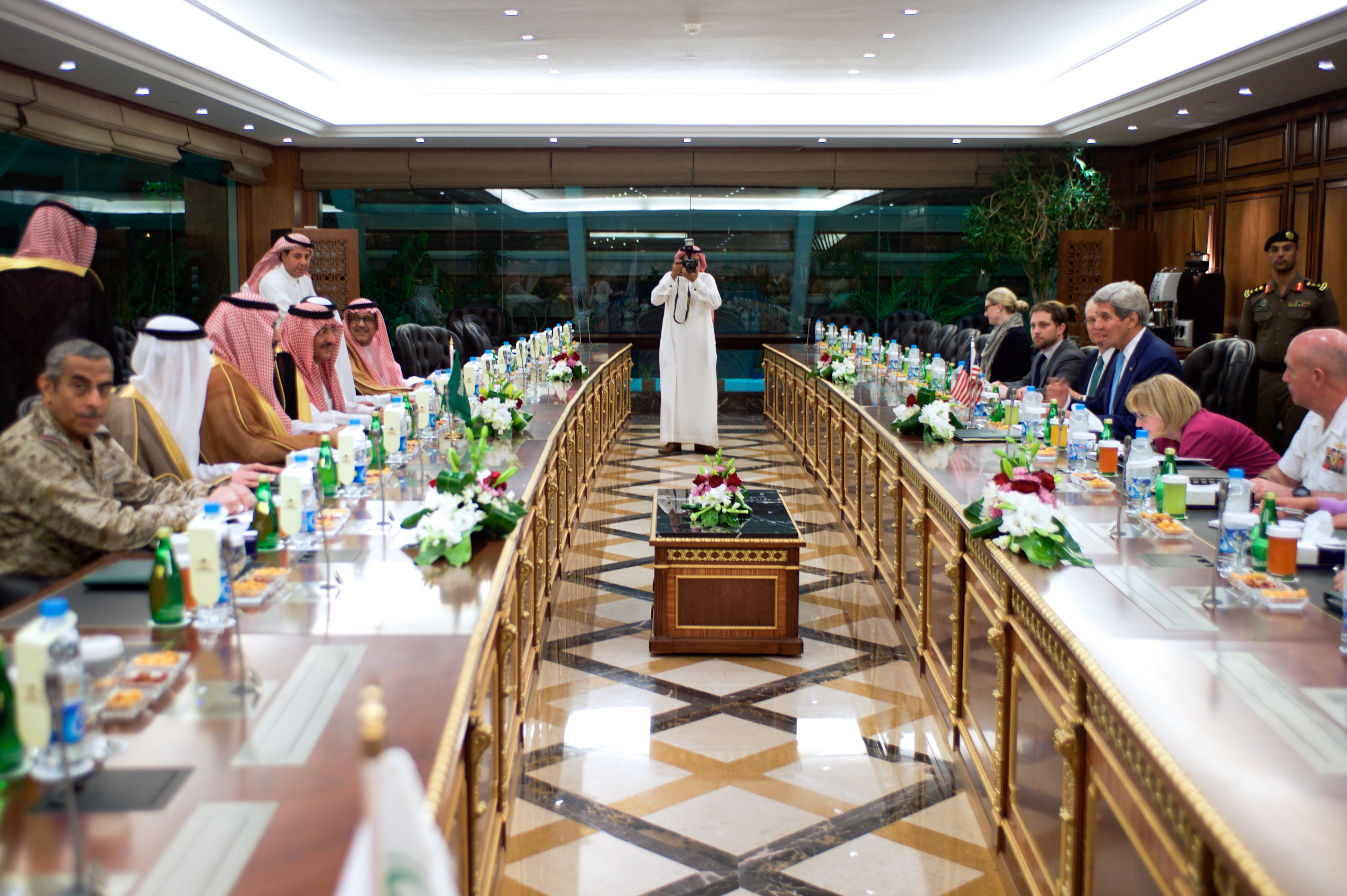 U.S. Secretary of State John Kerry sits across from Crown Prince Mohammed bin Nayef, at the Saudi Ministry of Interior in Riyadh, Saudi Arabia, on May 6, 2015, at the outset of a meeting and working dinner with him, Adel Al-Jubeir, the newly named Saudi Foreign Minister, and other government leaders. [State Department photo/ Public Domain]